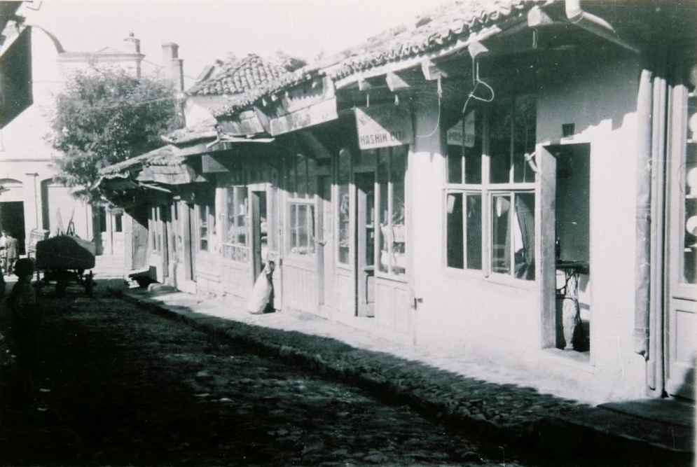 Old Bazaar of Prishtina